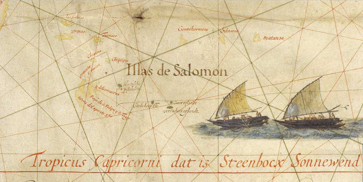 Close-up of the 1622 Map of the Pacific by Hessel Gerritsz showing the 'Solomon Islands' (Illas Salomon) as well as 5 islands discovered by Jacob le Maire and Willem Schouten in 1616: Hornsche Eylanden : Hoorn islands, Futuna et Alofi Goede hoop Elt [Eylandt] :Good Hope island, Niuafo'ou (Tonga) Cocos Eylandt : Cocos Island, Tafahi (Tonga) verraders eylandt : traitors island, Niuatoputapu (Tonga). It is one of the earliest maps where those island are drawn.